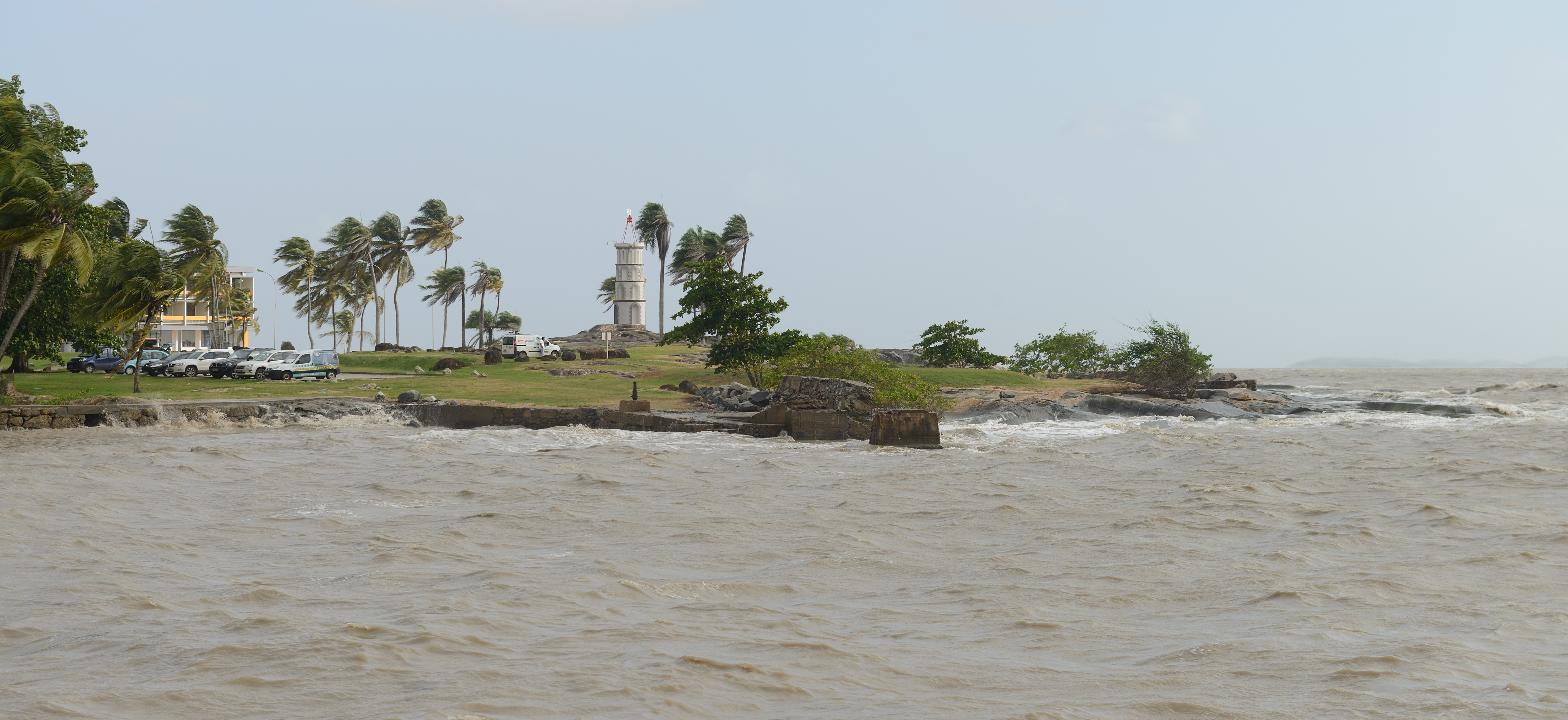 Pointe des Roches in Kourou, French Guiana, as seen from the estuary of the river Kourou.